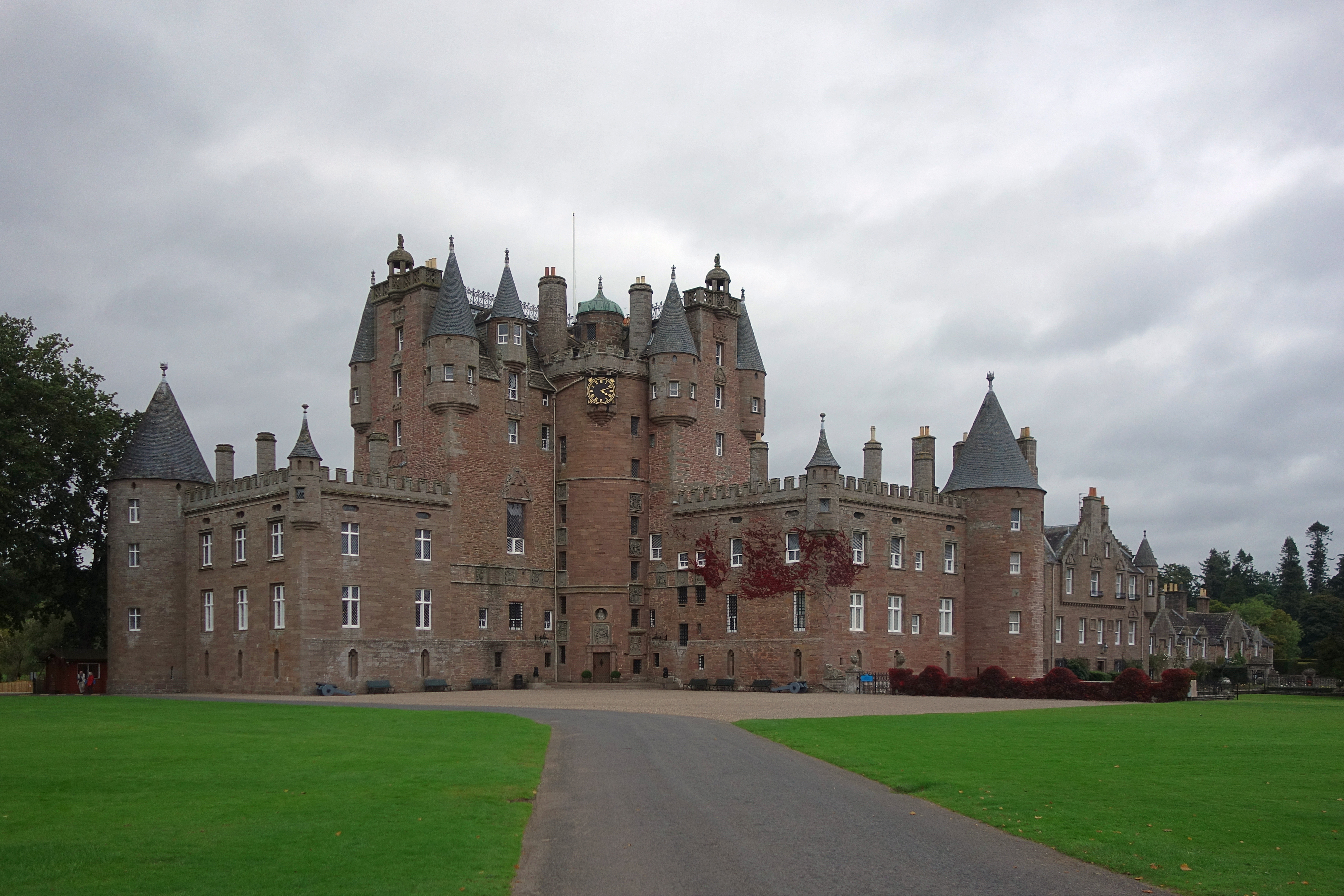 Glamis Castle in Scotland, as seen from Angles Park.